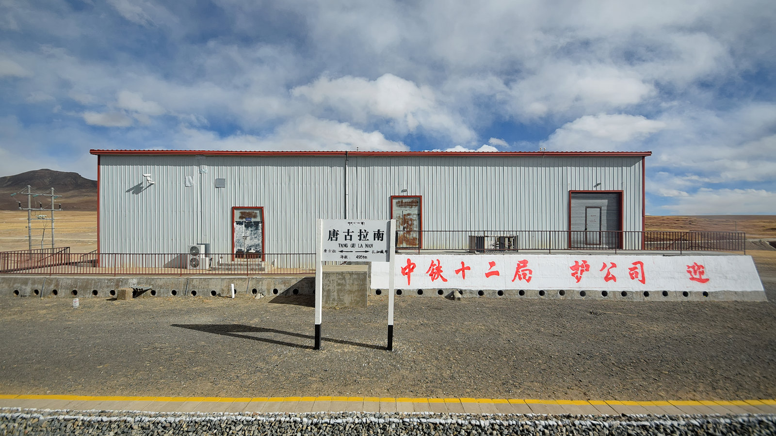 Tanggula Nan (South) Railway Station / Tang Nan Railway Station, Qinghai-Tibet Railway (altitude 4951m)